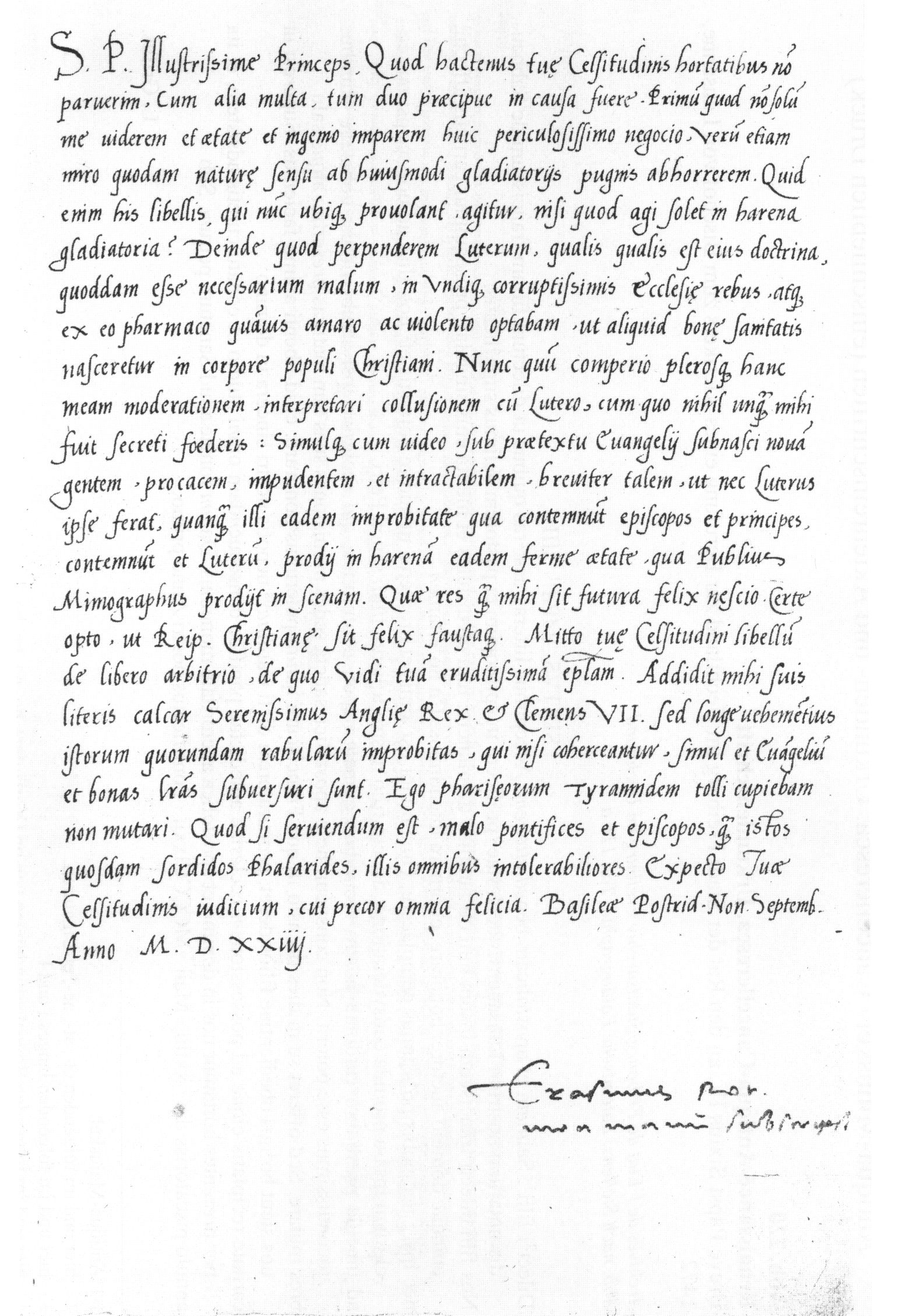 A letter of Erasmus to George, Duke of Saxony, explaining Erasmus’ views of Luther and the Reformation. Sächsisches Staatsarchiv, Hauptstaaatsarchiv Dresden, 10024 Geheimer Rat (Geheimes Archiv), Locat 10300/4, Bl. 26.